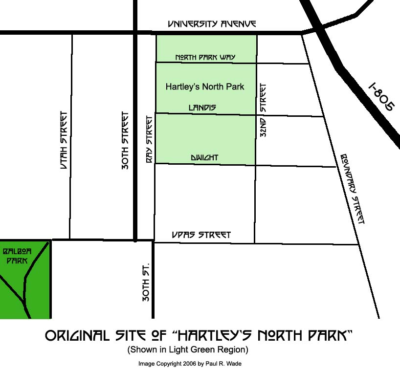 I am paul r. wade and I created this image from scratch using Photoshop. I own the copyright -- but license it for use to Wikipedia for use for this North Park San Diego article.